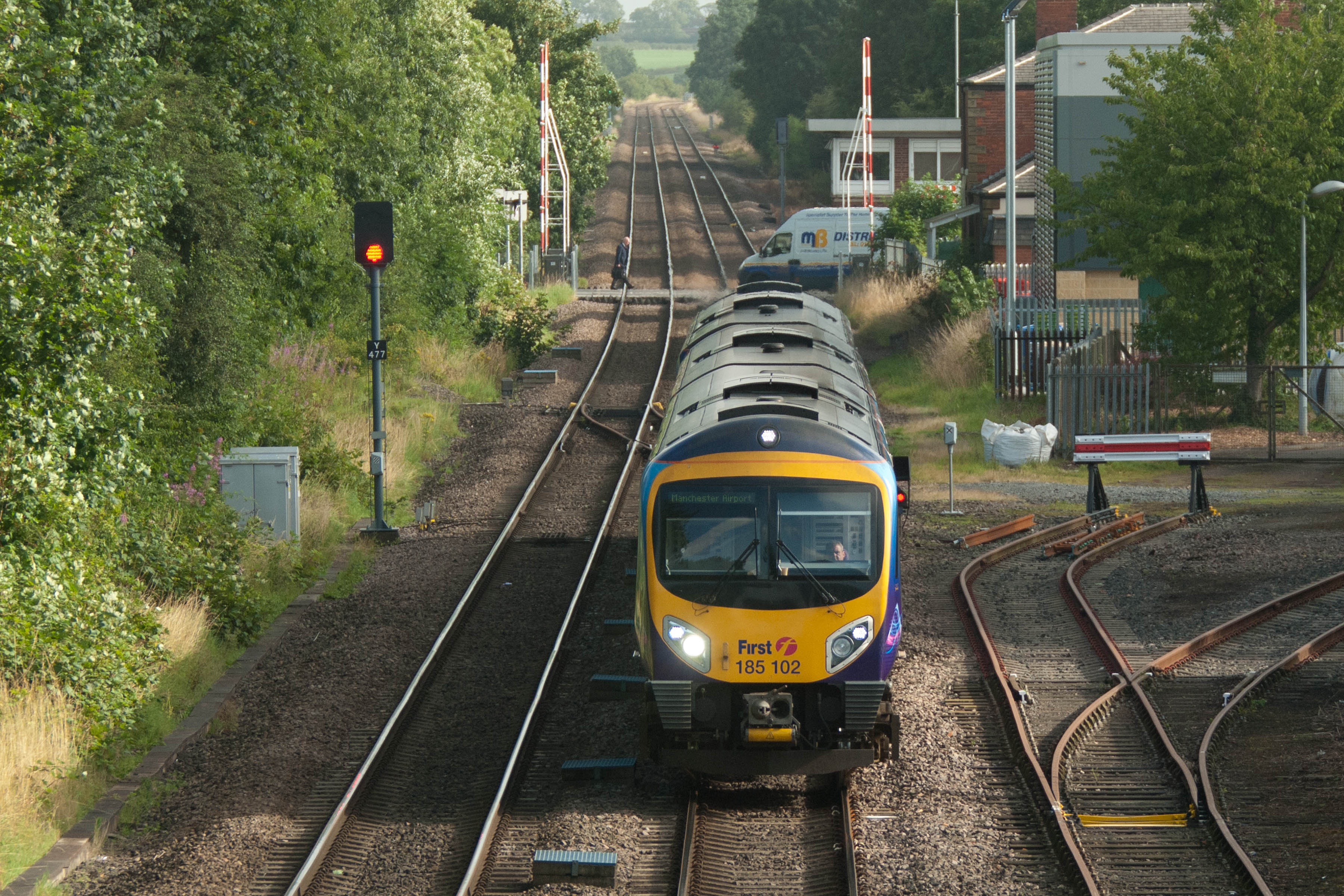 185102 heads past Low Gates (Northallerton) with a Transpennine Service to Manchester Airport on the 16th of August 2012. The engineers sidings can be seen on the right